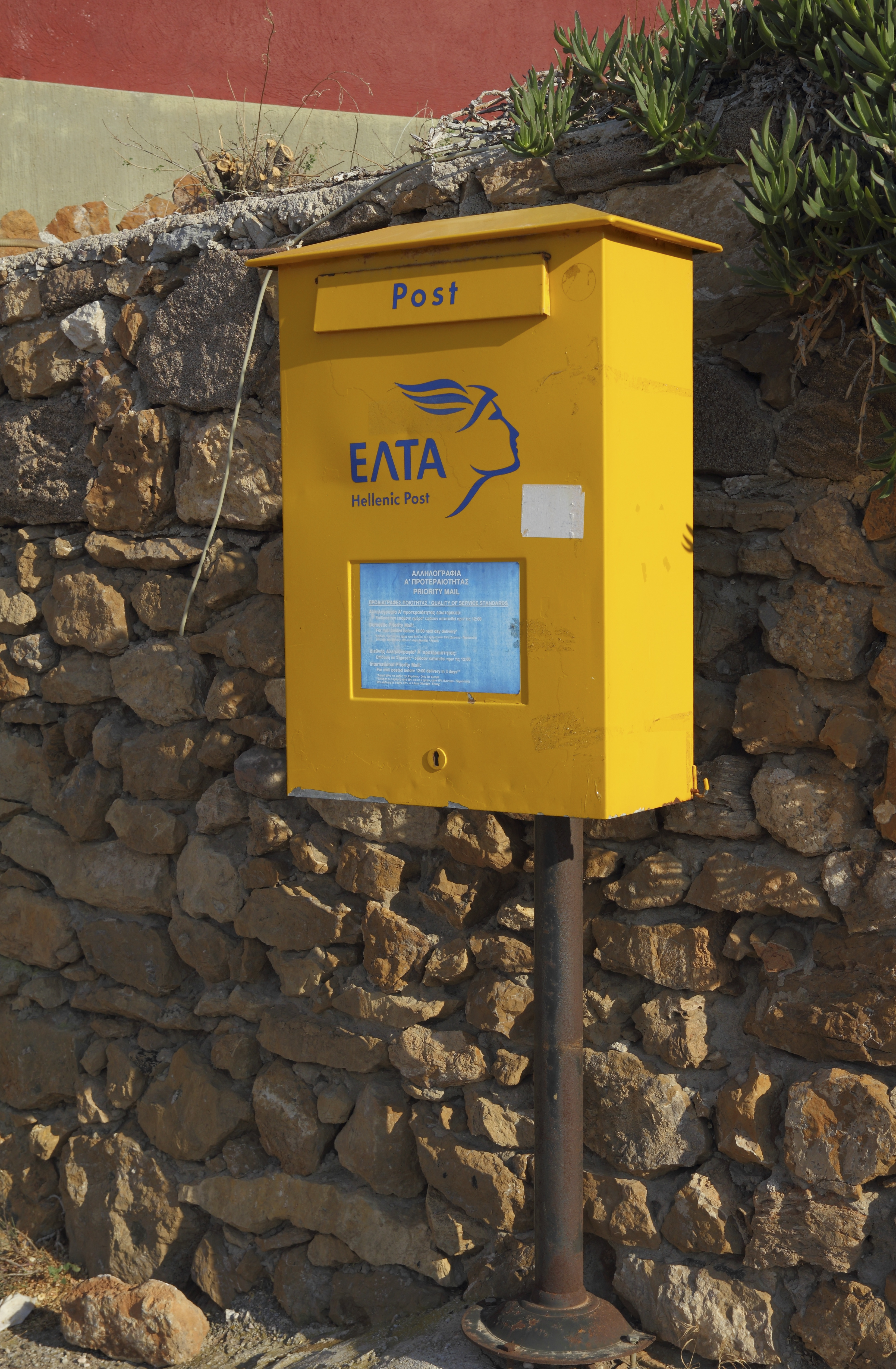 Cape Sounion (Attica, Greece) – ELTA mailbox